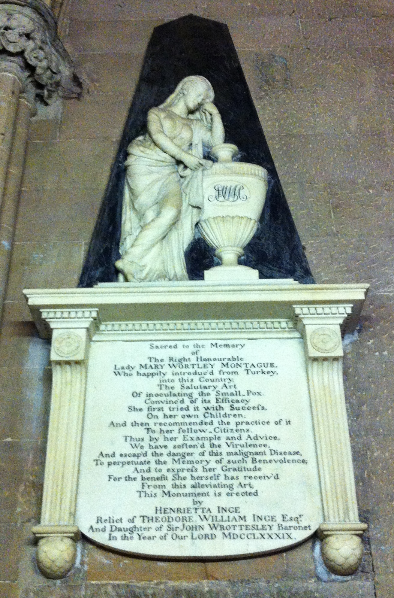 Memorial to the Rt. Hon. Lady Mary Wortley Montague. Who happily introduced from Turkey, into this Country, The Salutary Art of inoculating the Small Pox. Convinced of its Efficacy she first tried it with Success on her own Children. And then recommended the practice of it to her fellow Citizens. Thus by her example and advice we have softened the virulence and escaped the danger of this malignant disease. To perpetuate the memory of such benevolence, and to express her gratitude for the benefit she herself has received, from this alleviating art, This monument is erected by Henrietta Inge, Relict of Theodore William Inge, Esq, and daughter of Sir John Wrottesley Baronet, in the year of our Lord 1789.